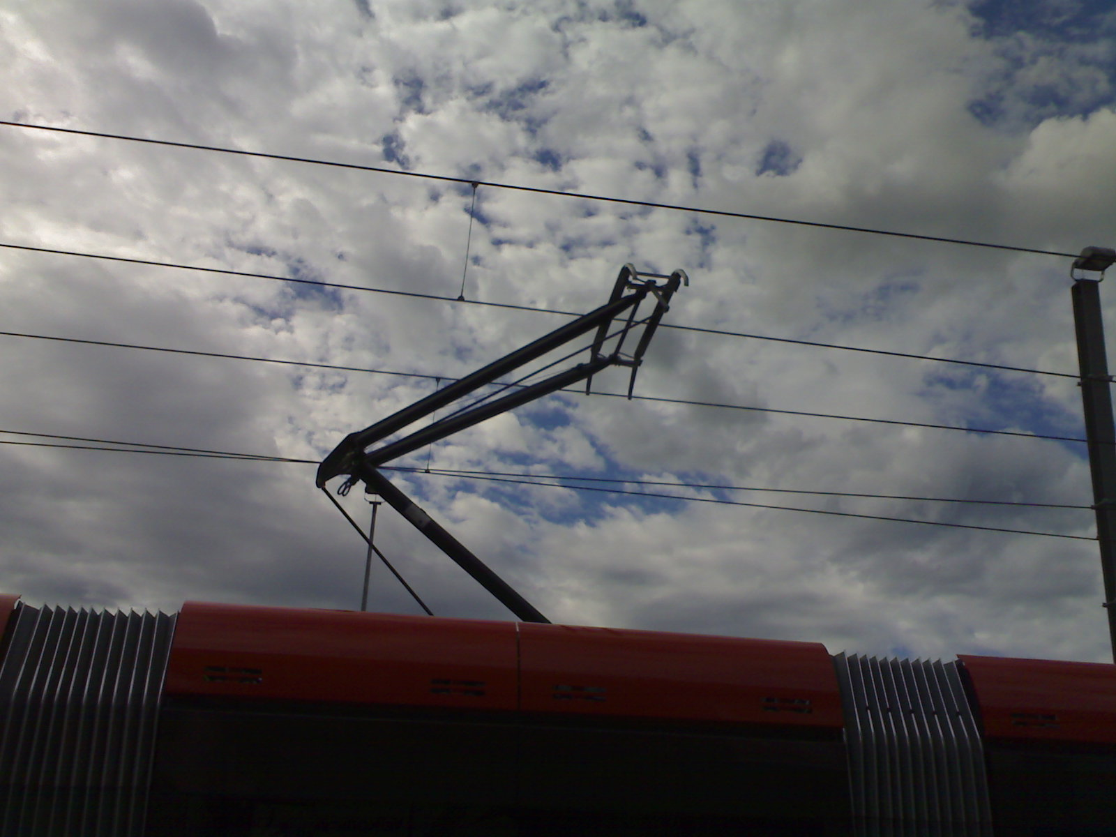 Current collector at the Bergen Light Rail trams.